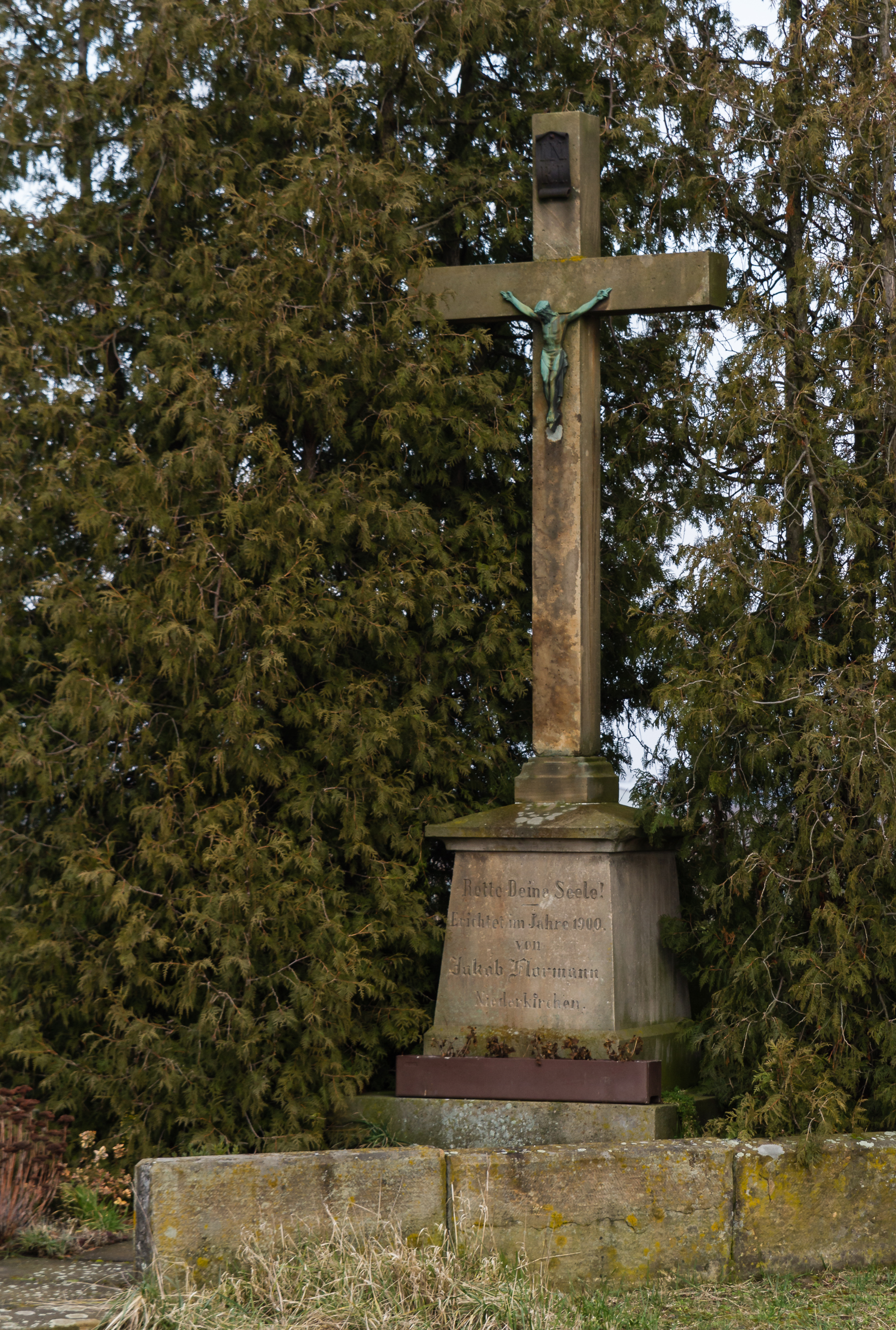 Designation: Wayside cross Location: At the L 528 (Forster Straße) approximately 200 m north-west outside the settlement of Niederkirchen. Parcel of land: Am Gutenberg Place: Deidesheim, District Bad Dürkheim, Rhineland-Palatinate Construction time: 1900 Description: Sandstone, metal body 1932